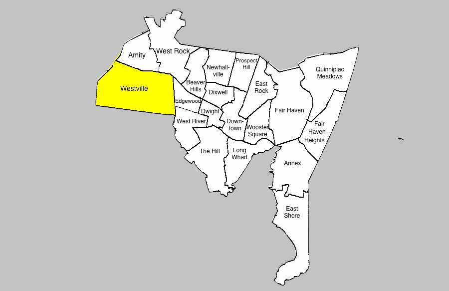 Location of Westville neighborhood within New Haven, Connecticut